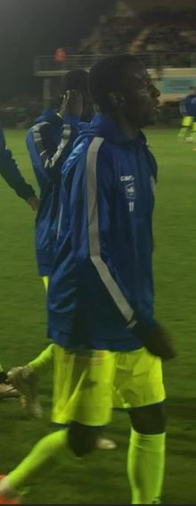 Own picture